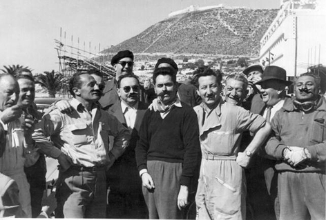 Organizing committee at 1953 Grand Prix Agadir. French racecar driver André Guelfi in front with a smile and racing suit on.